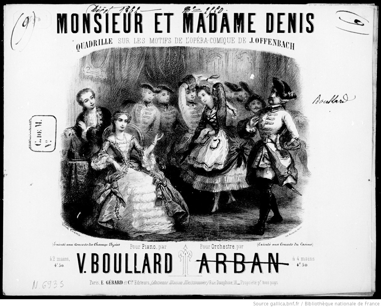 Quadrille arranged by Victor Boullard from Monsieur et Madame Denis, opéra-comique by Jacques Offenbach, title page with engraving by Victor Coindre